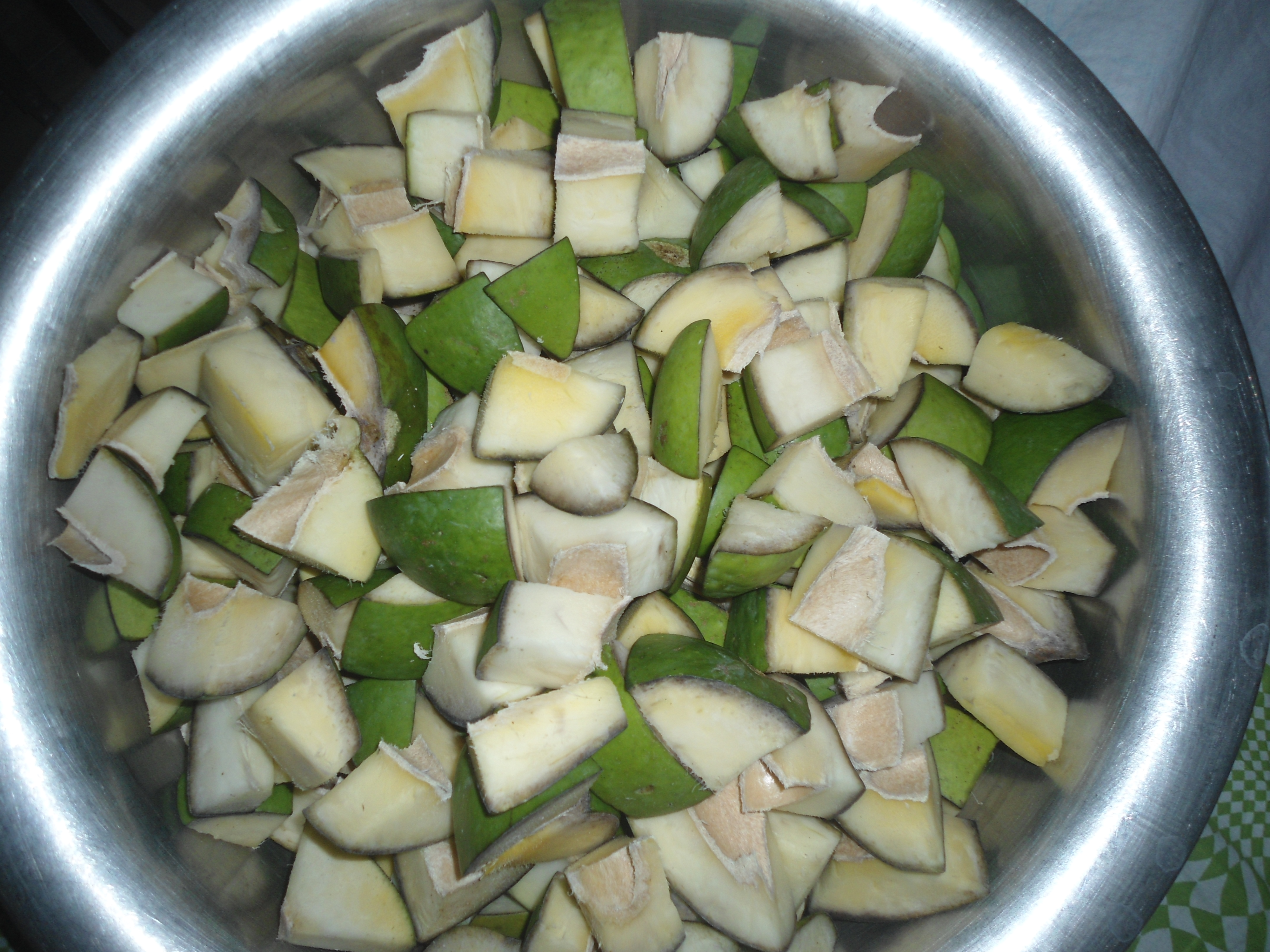 Green Mango pieces for making Pickle, South India